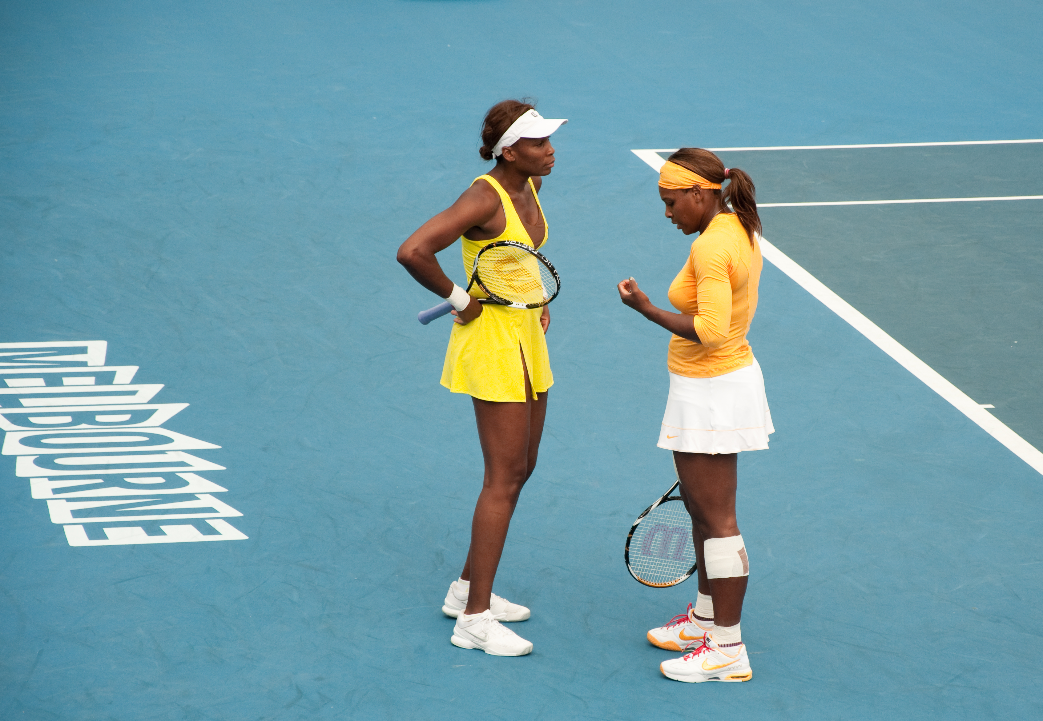 Melbourne Australian Open 2010 Venus and Serena Chat